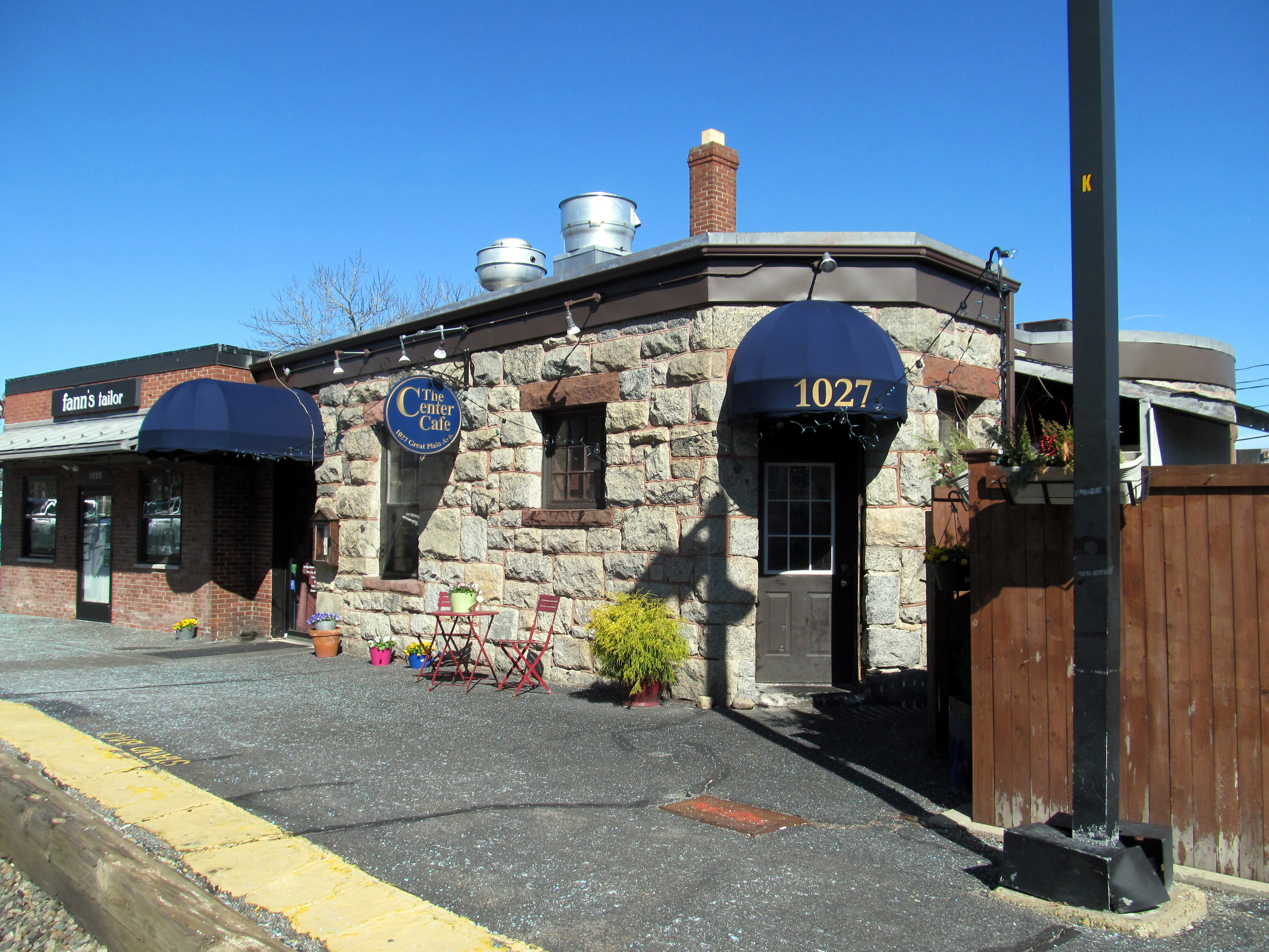 The remaining section of the 1897-built Needham station, seen in March 2016. The brick structure at left was used as a waiting room in the 1990s.